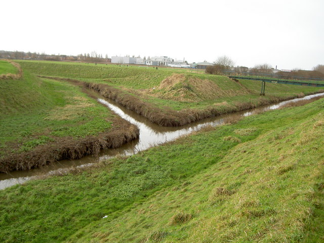 Confluence of The Birket and the River Fender. Most small rivers on north Wirral flow into The Birket, the river from which Birkenhead takes its name. The River Fender flows from near Prenton to this point, and The Birket flows from near West Kirby to Birkenhead.